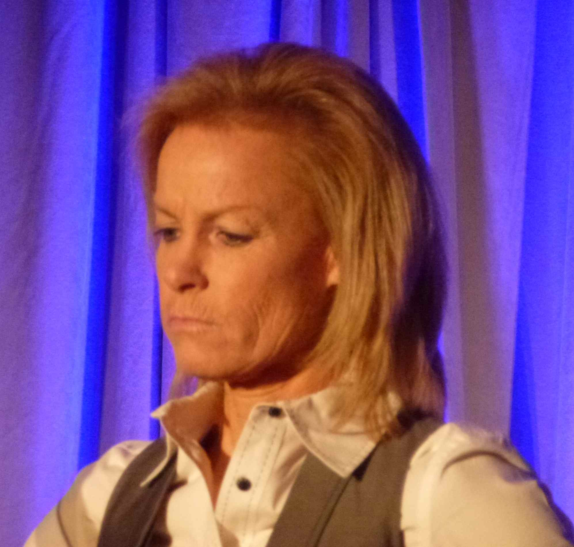 Sue Semrau Head Coach Florida State women's basketball and 2013-14 President of the WBCA, taken at her induction as President at the 2013 WBCA Convention in New Orleans